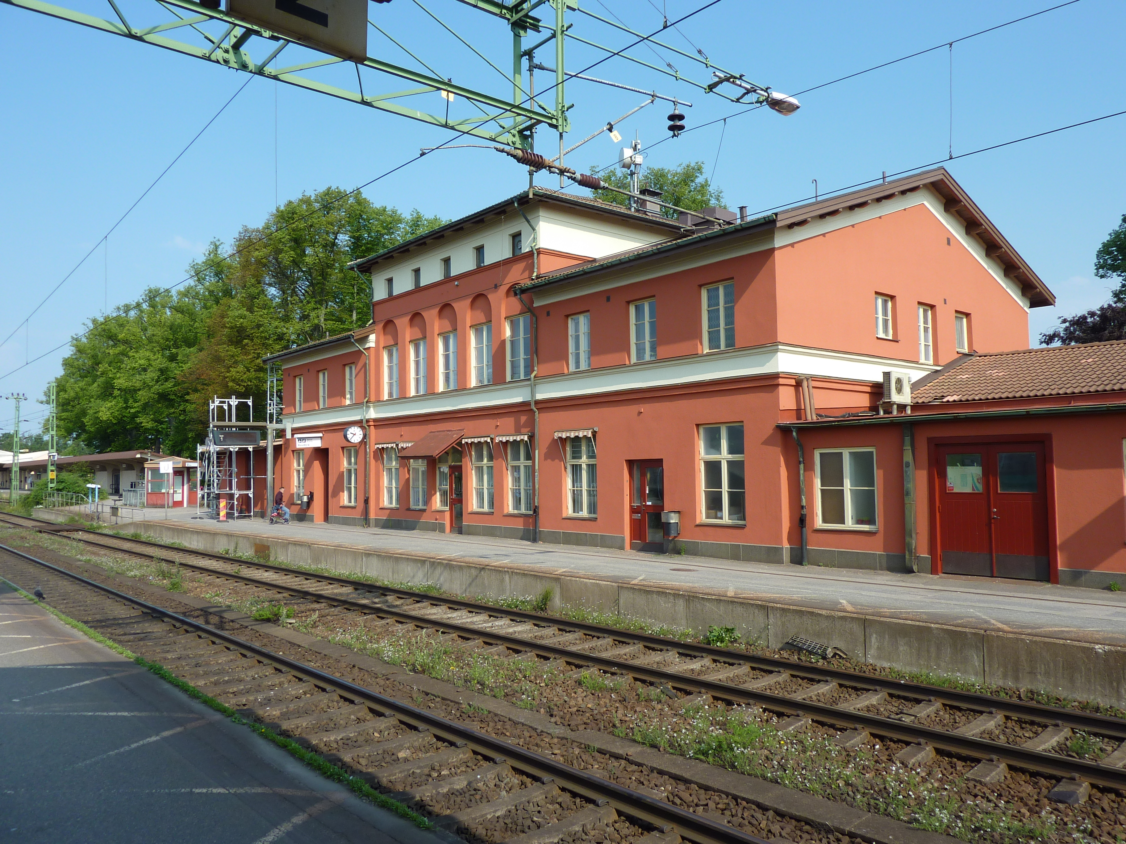 Railway station Alingsås in Sweden